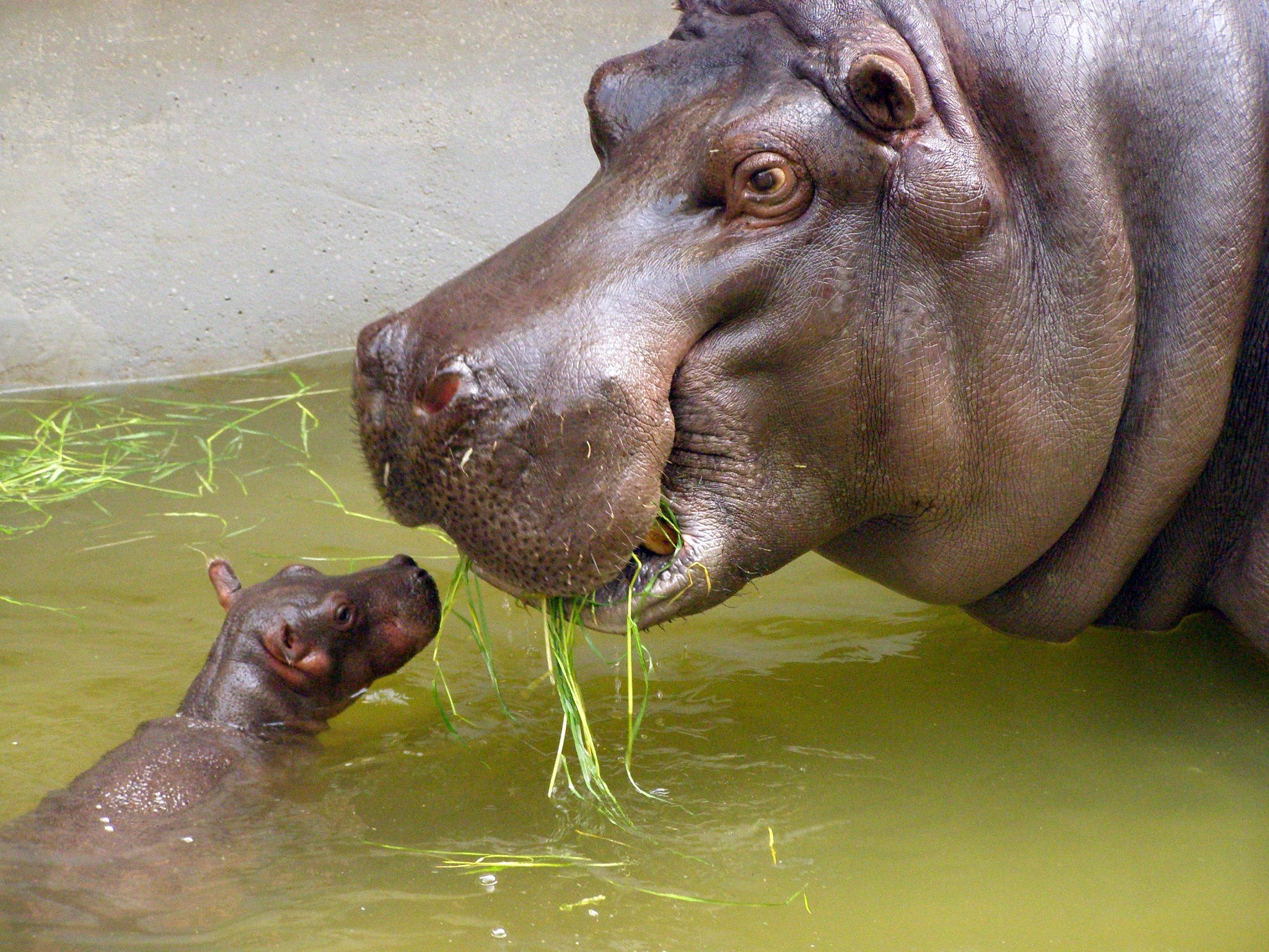 Mother and small baby hippo (named "Imani") eating in Antwerp zoo